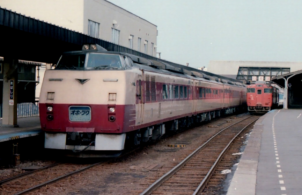 JNR KiHa 183 series DMU on an Okhotsk limited express service at Abashiri Station